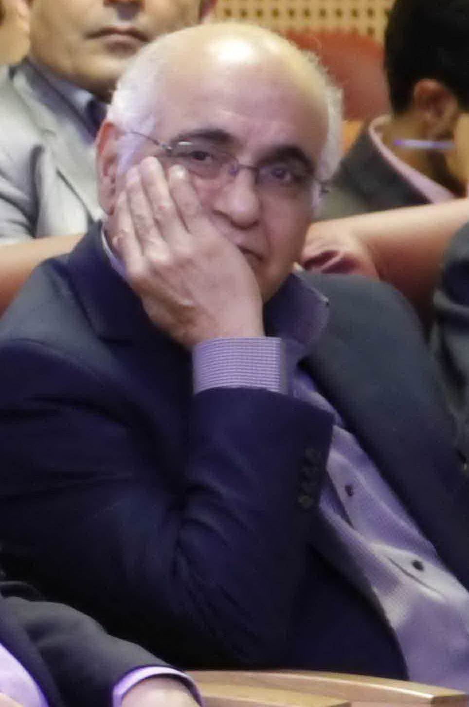 Meeting of Kerman in the course of history - Hafez Hall, Milad Tower (3) (Cropped on Moradi Kermani)